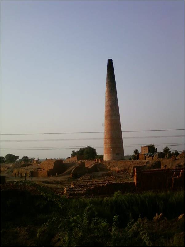 Agricultural fields in Jalaun District, U.P.